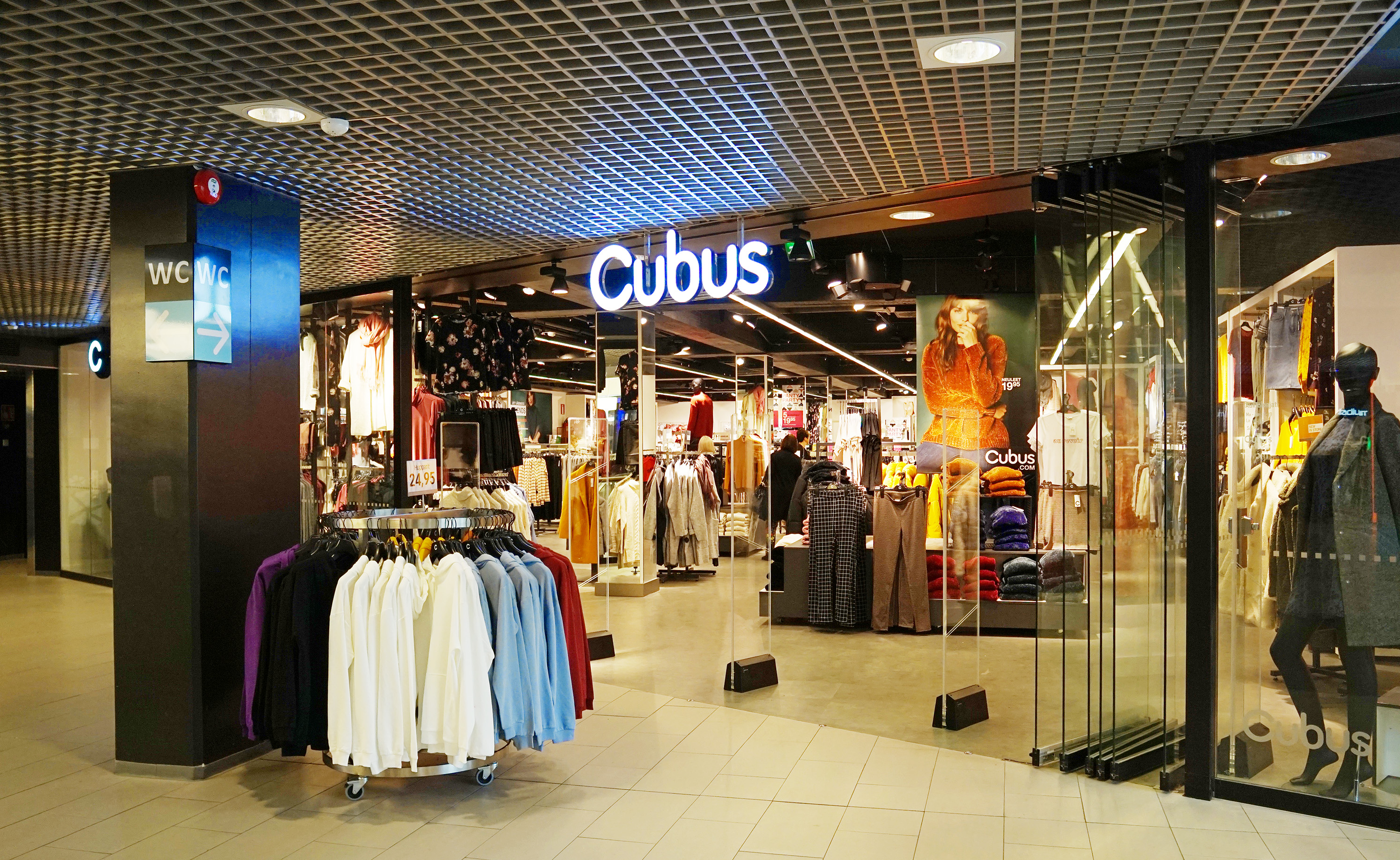 Cubus shop in Mikkeli, Finland.